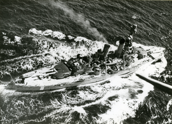 The Swedish coastal defence ship HMS Drottning Victoria.